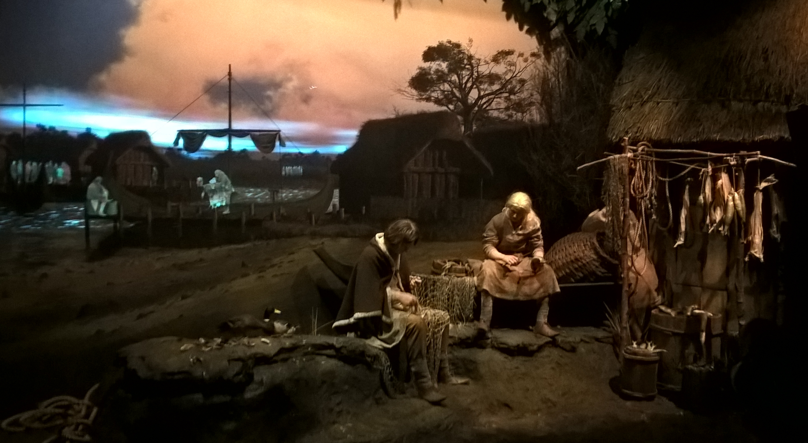 Animatronic tableau of fishermen working and talking at the Jorvik Viking Centre, York.